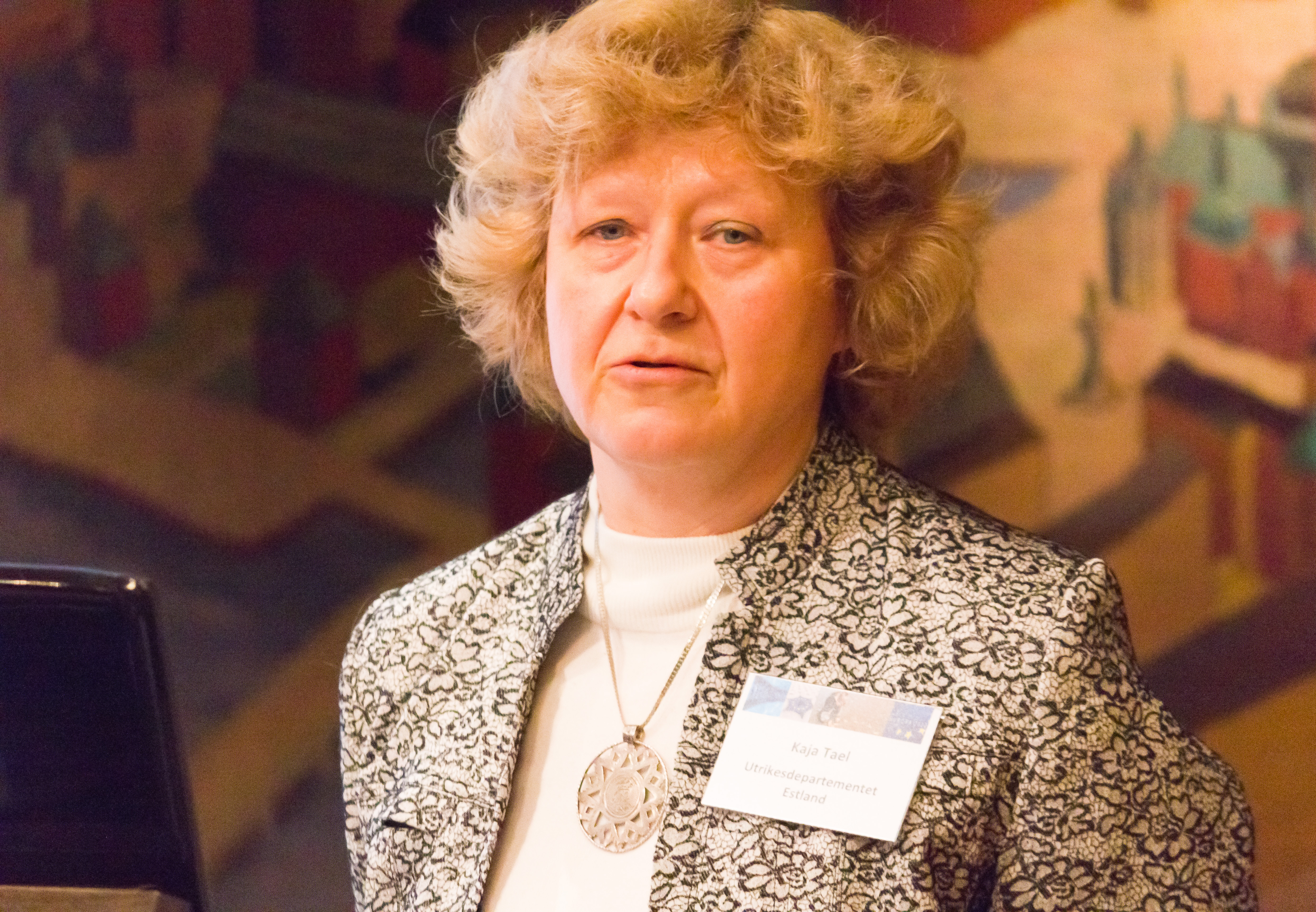 The Undersecretary of European Union Affairs of Estonia Kaja Tael